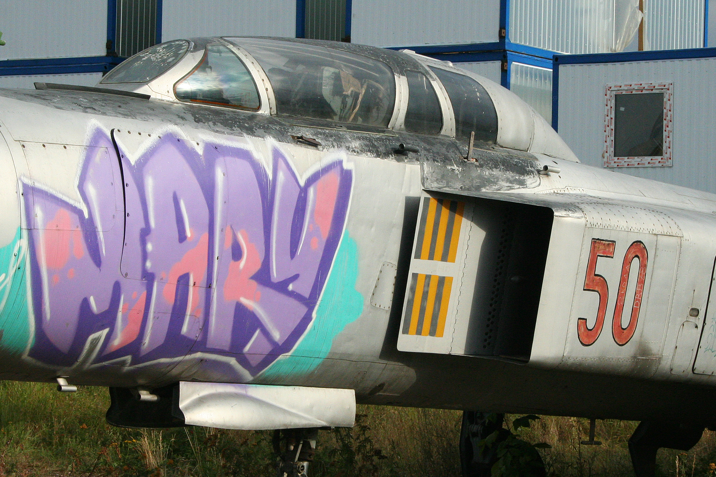 This is a whole new version of 'nose-art'! c/n 1015310. Previously part of the Central Aerodrome Museum at what was Frunze Central Airfield. Now stored and waiting for it's fate. Khodynka, Moscow. Russia. 11-8-2012